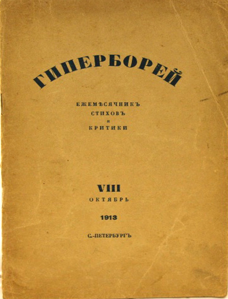 File:Giperborei 1913 no VIII.jpgGiperborei 1913 no VIII Гиперборей. Ежемесячник стихов и критики. 1913 октябрь № 8. Спб., М. Лозинский, 1913. 28 с.